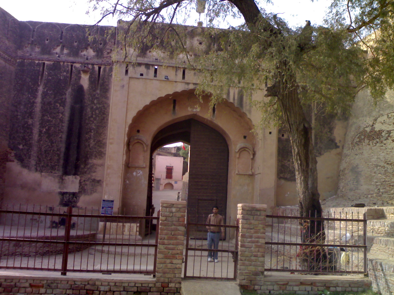 I,Harish Soni from Hanumangarh(wikiuser:Shemaroo) have taken and uploaded this photo for wikipedia.It shows you entrance of Bhatner fort of Hanumangarh,India.email:-Harishchsoni @gmail.com Shemaroo (talk) 13:11, 14 November 2011 (UTC)